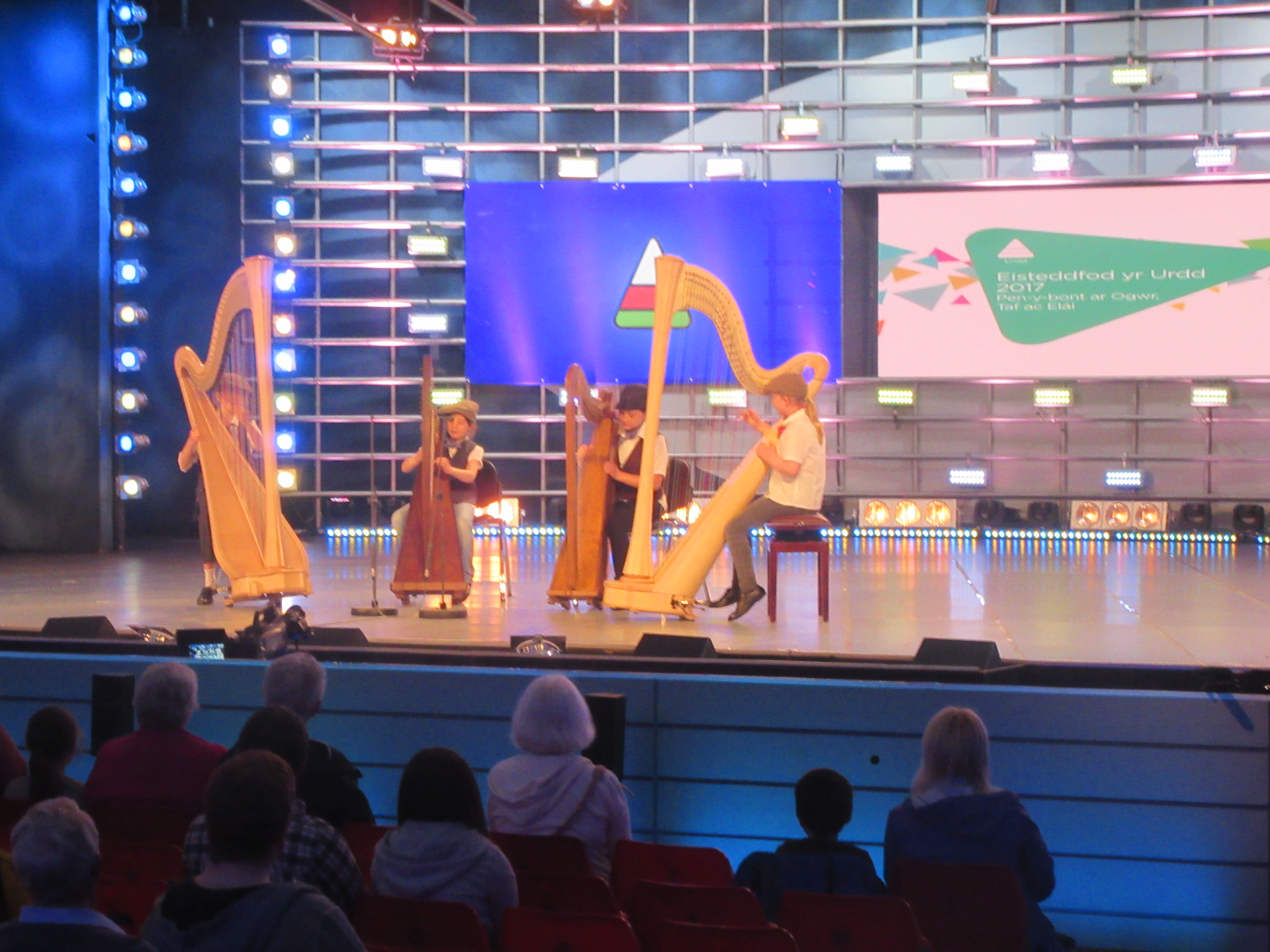 Urdd National Eisteddfod 2017, Bridgend - 29 May - Ensemble competition - Harpists, wide